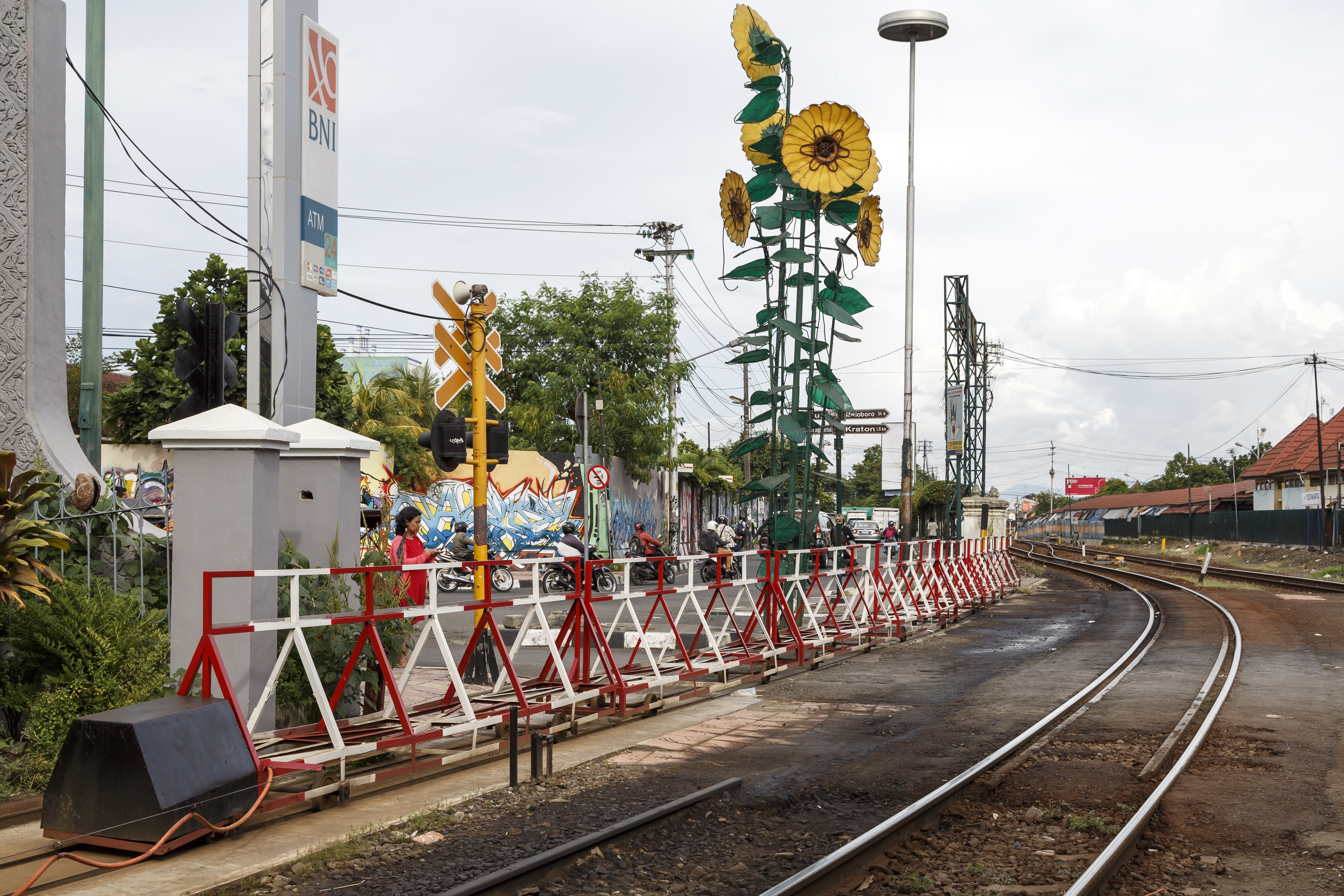 Yogyakarta, Indonesia: A railway crossing gate at the level crossing near Yogyakarta Tugu Station for customers.